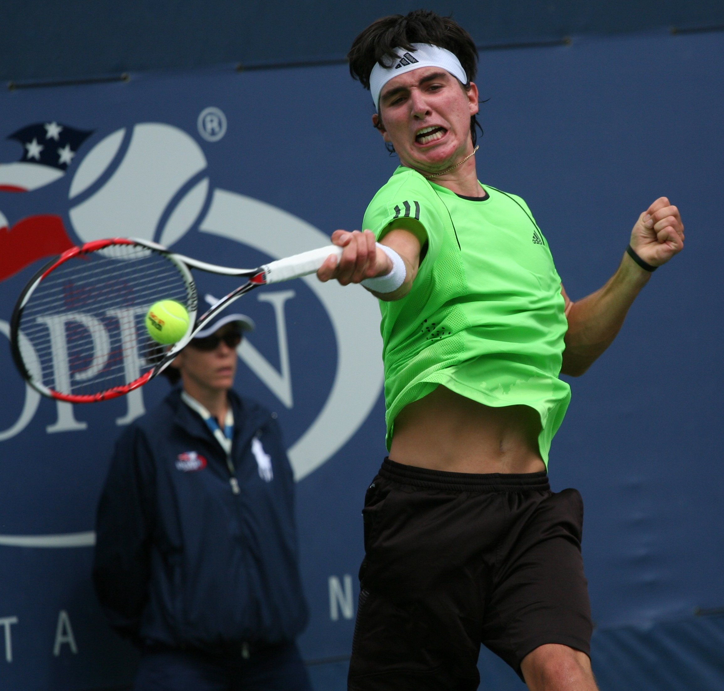 Chase Buchanan at the 2009 USO